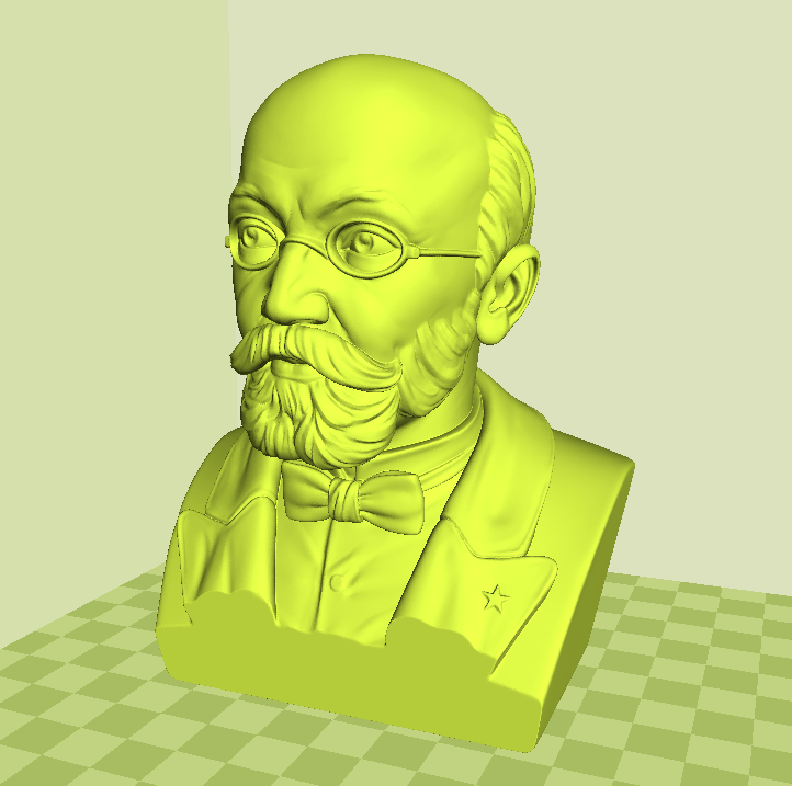 View of STL file of Esperanto Zamenhof Bust in CURA software for 3D Printing.